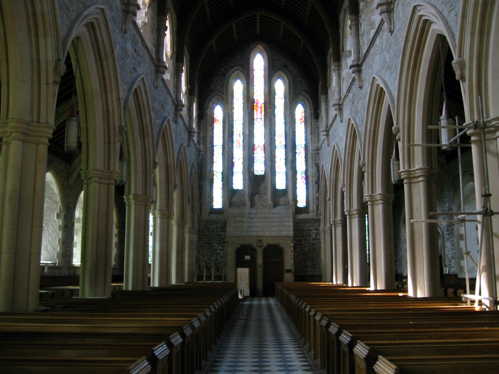 Nave of the Anglican Cathedral ending in the Outerbridge Windows, St. John's, Newfoundland